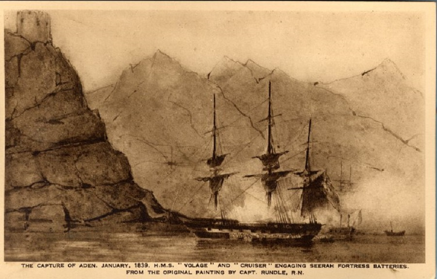 Early 20th century British postcard showing one of six paintings on the 1839 capture of Aden painted by Captain J. S. Rundle of the Royal Navy, who had taken part in the expedition.